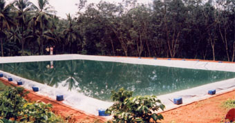 Collecting rain water